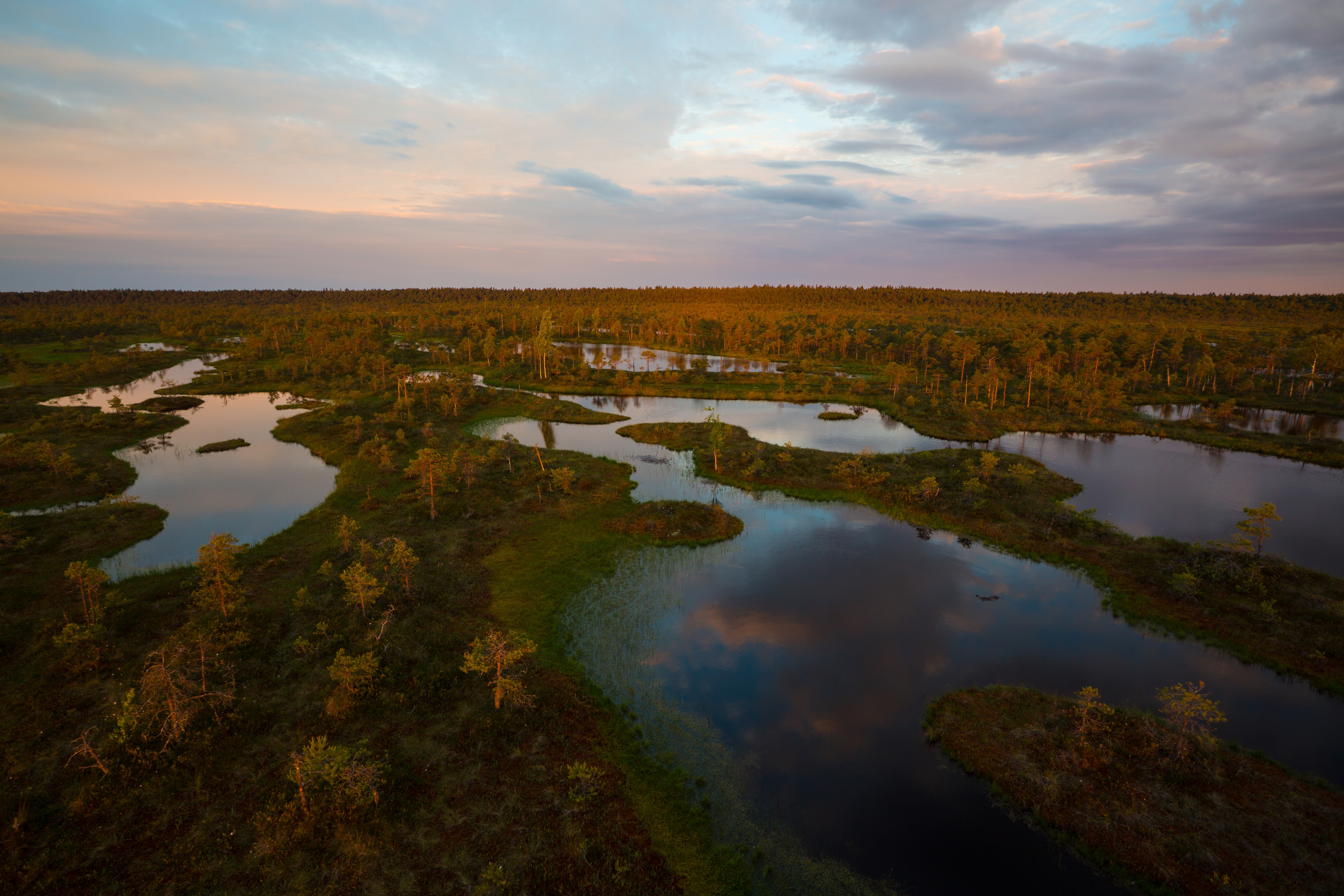 View to the Männikjärve Bog (Endla Nature Reserve) at evening from the watching tower.